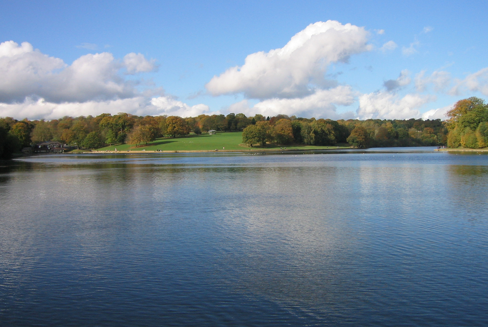 Waterloo Lake, Roundhay Park, Leeds. From the dam (South) end. Left is the Cafe, centre the Bandstand, the main length of lake ahead on right.